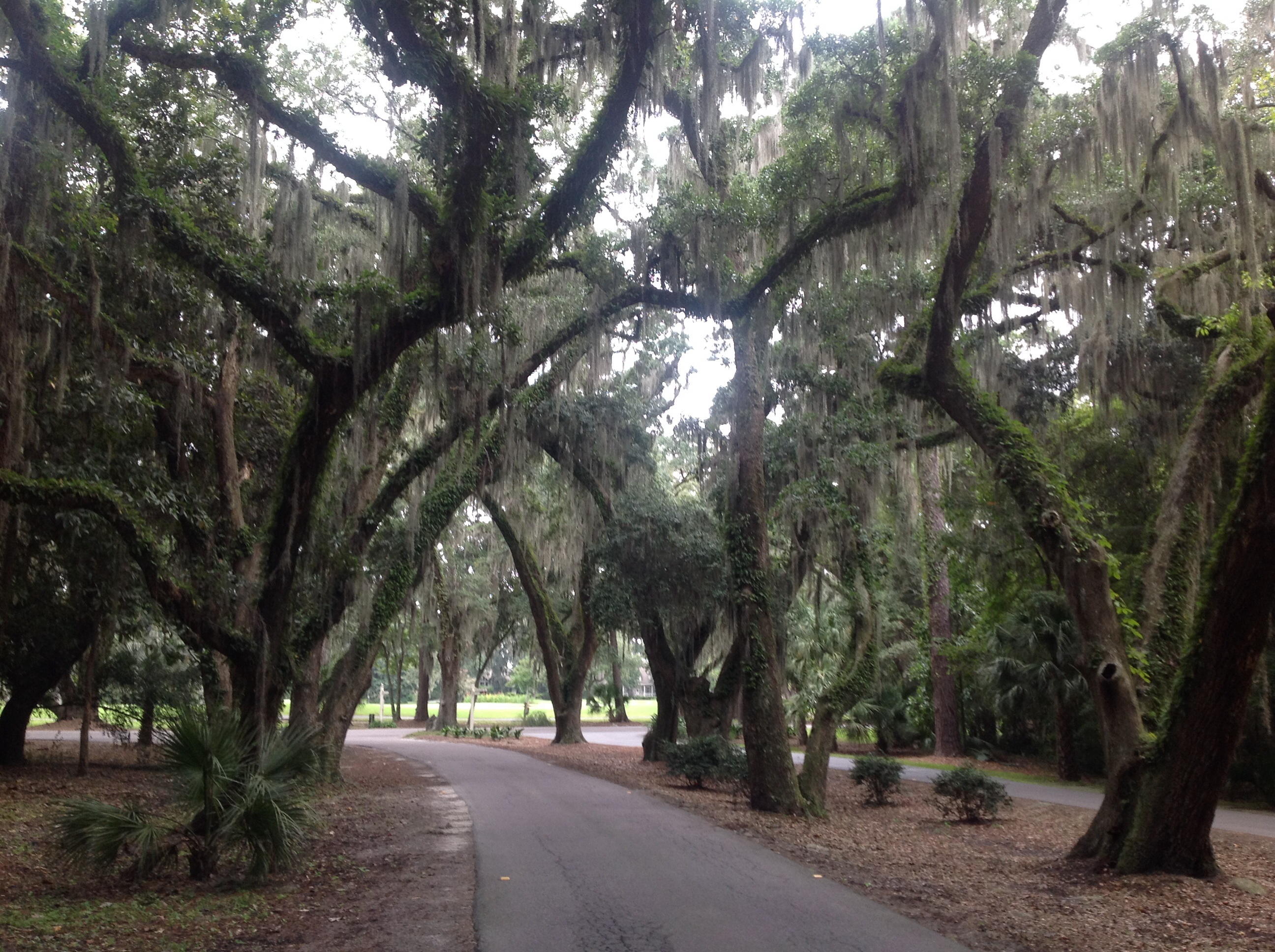 Callawassie Island Live Oaks on Spring Island Drive, Callawassie Island, South Carolina